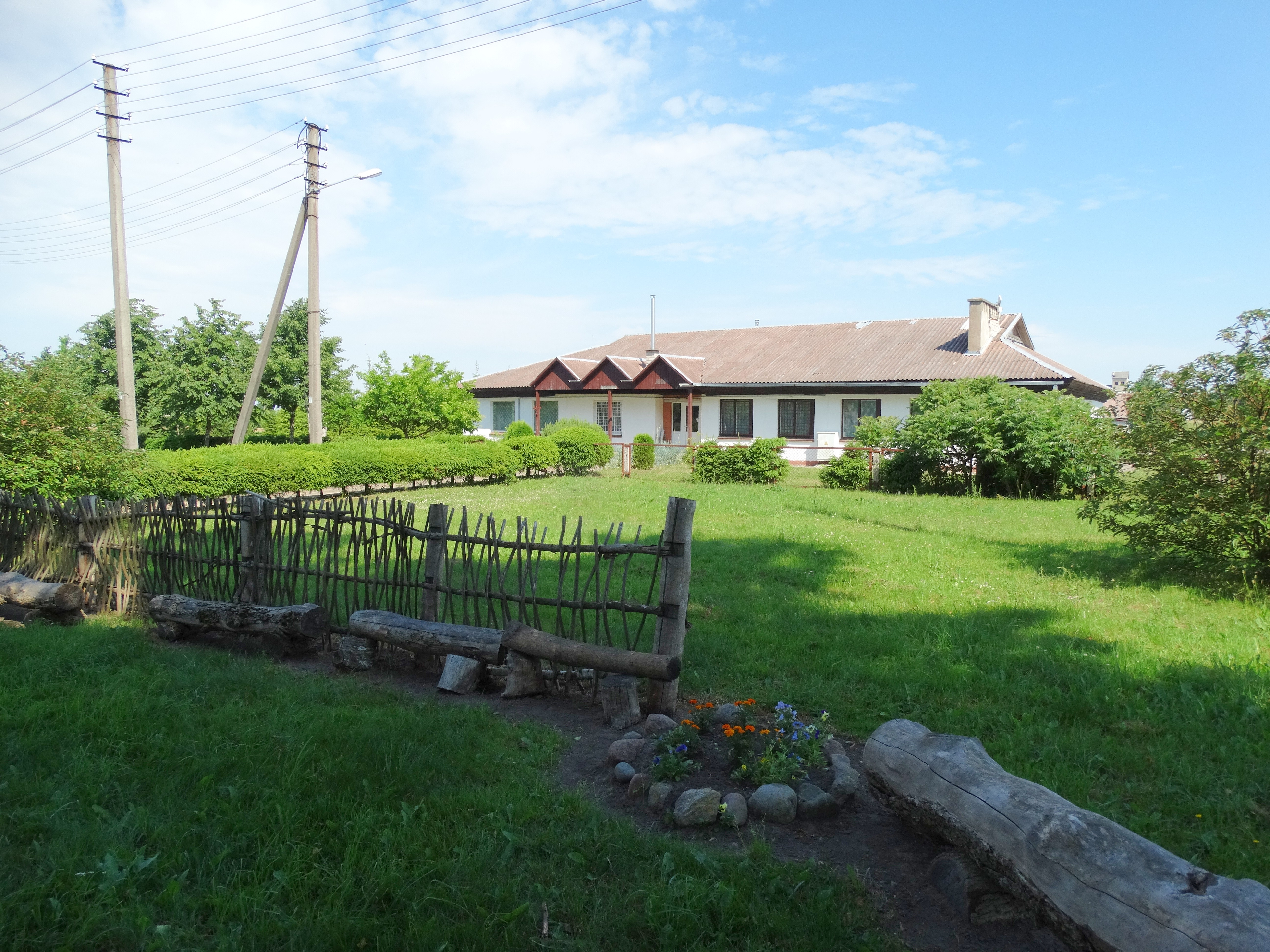 Community House, Viekšnaliai, Telšiai District, Lithuania